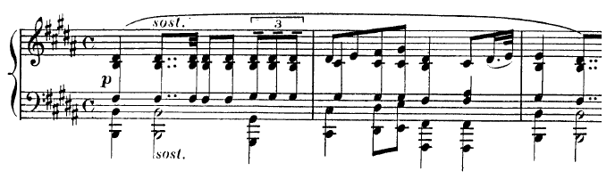 The opening bars of the second movement of the piano concerto by Jules Massenet